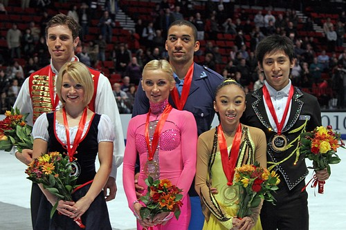 Kirsten Moore-Towers / Dylan Moscovitch (2), Aliona Savchenko / Robin Szolkowy (1), Sui Wenjing / Han Cong (3) at the 2010 Skate America